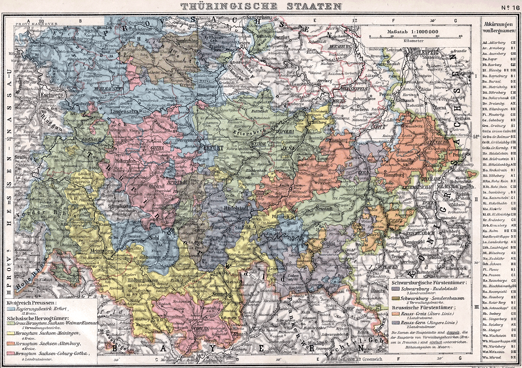 Historical map of Thüringen